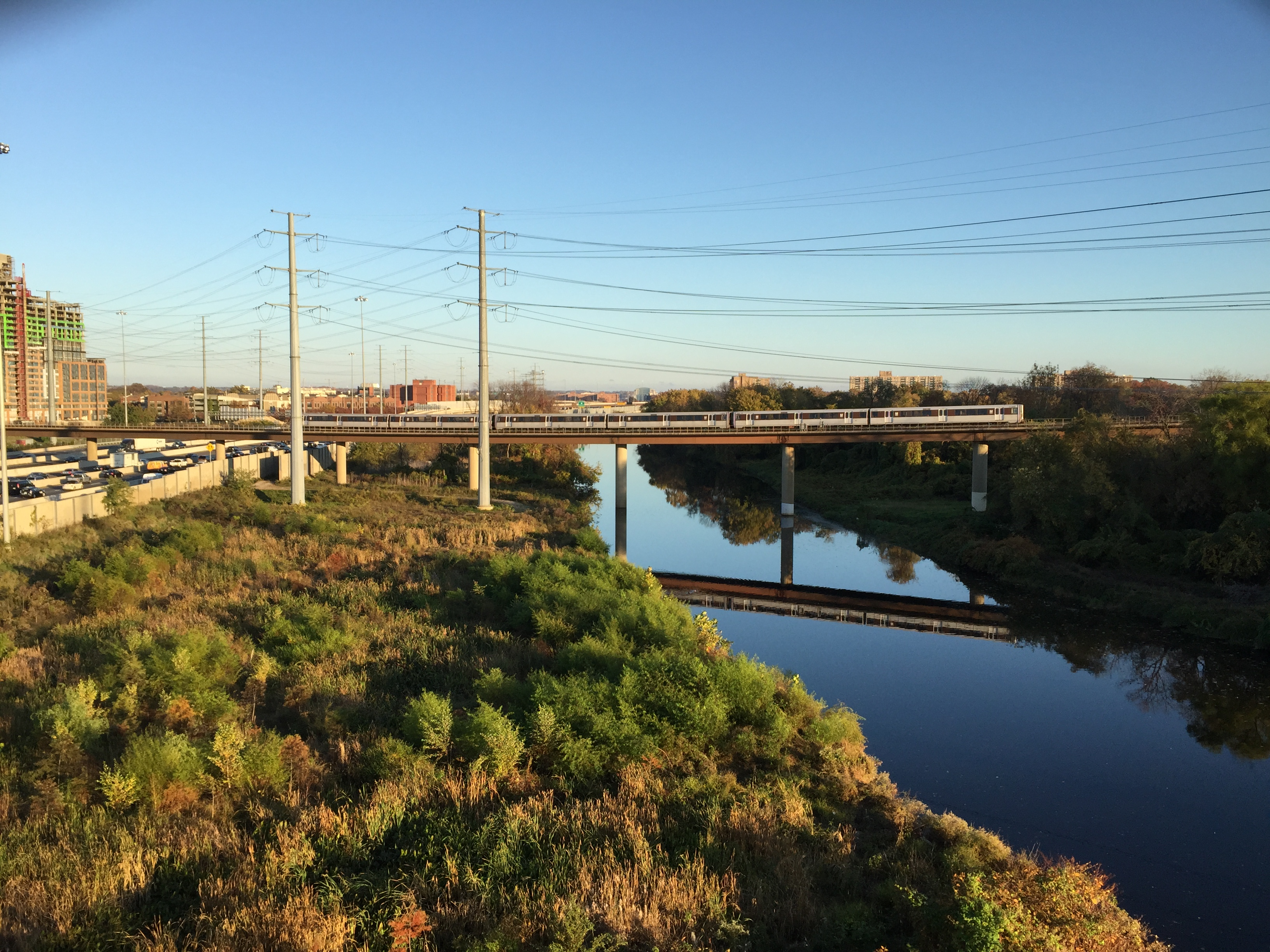 Metro Yellow Line bridge over Cameron Run in Alexandria, Virginia in 2015